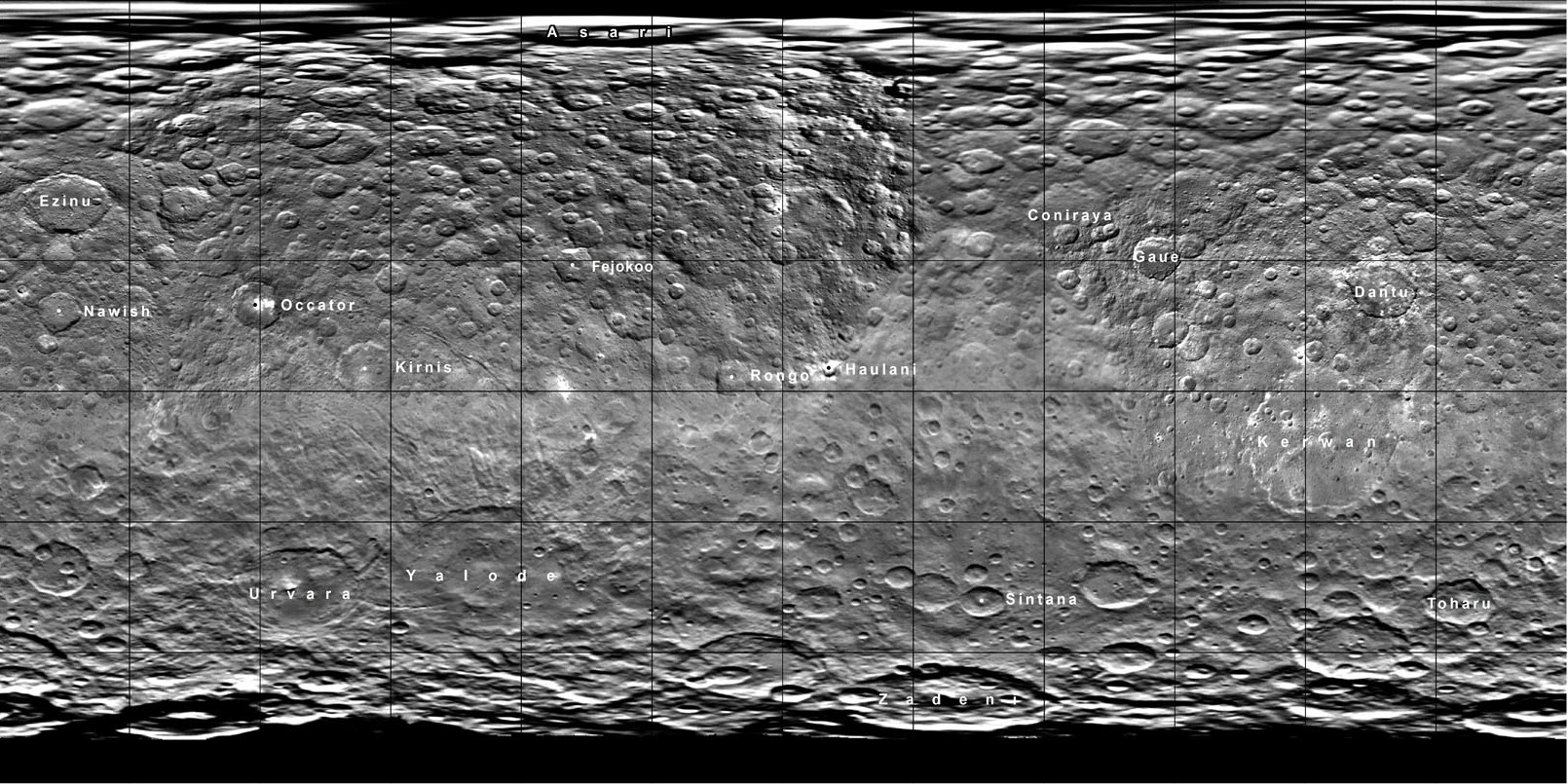 Topographic Map of Ceres. Derivative work from original picture with comments from NASA (